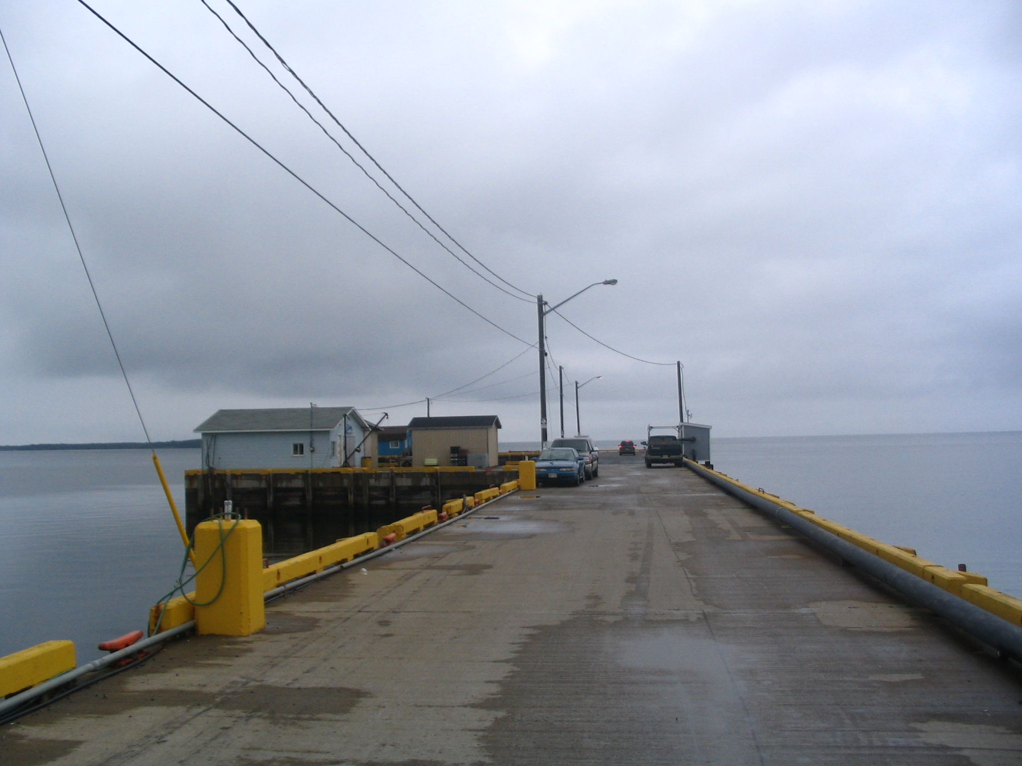 The fishing port of Bas-Caraquet, New Brunswick, Canada.